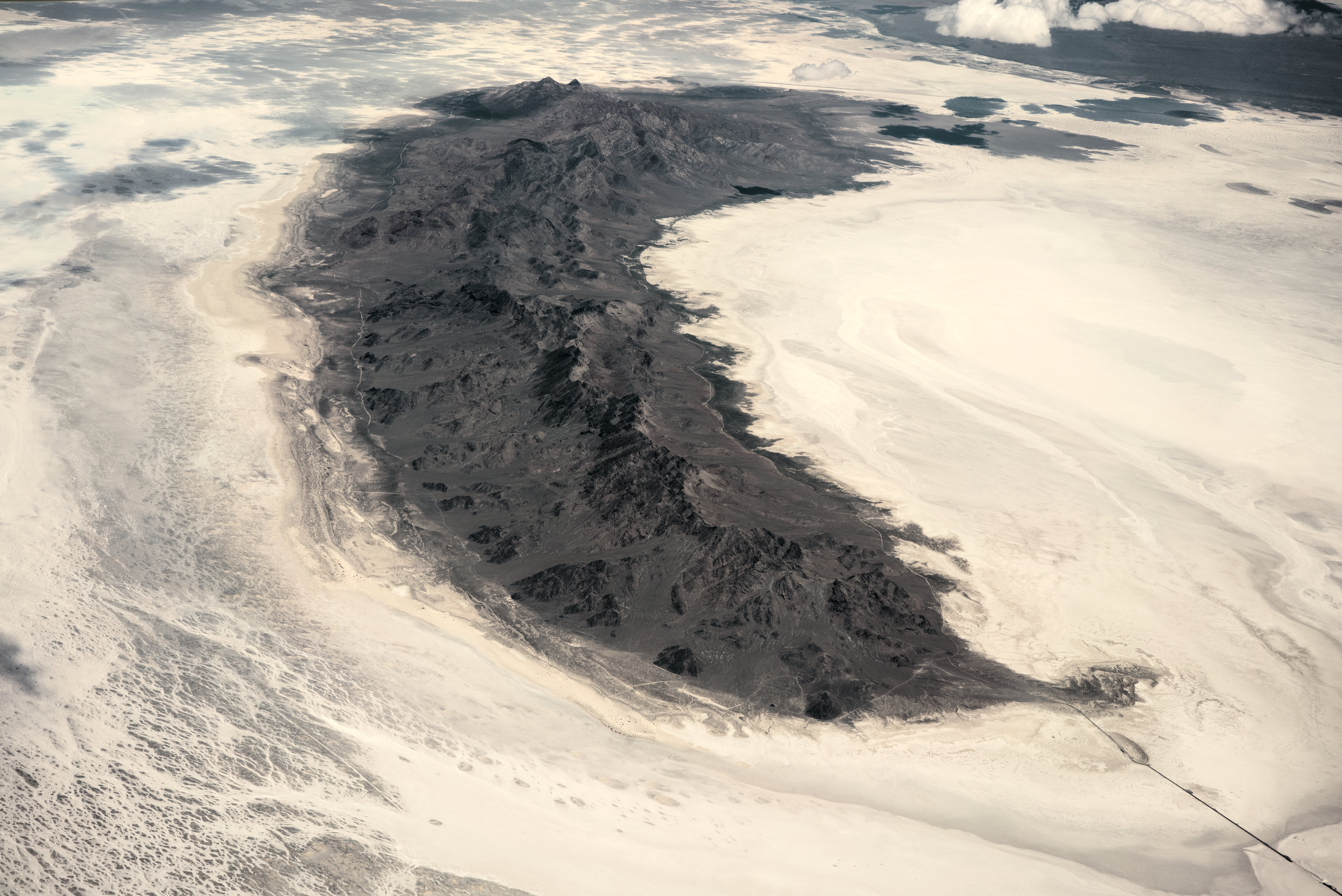 The Newfoundland Mountains in Utah is a mountain range located in Box Elder County. The highest point on this range is known as Desert Peak [1] (not to be confused with the Deseret Peak or the Desert Peak Formation, Nevada). This aerial photo was taken from a commercial flight from Salt Lake City to San Francisco.